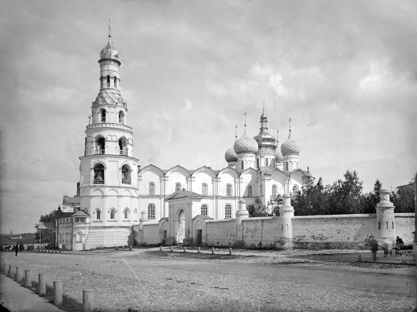 Annunciation cathedral in Kazan Kremlin before 1917